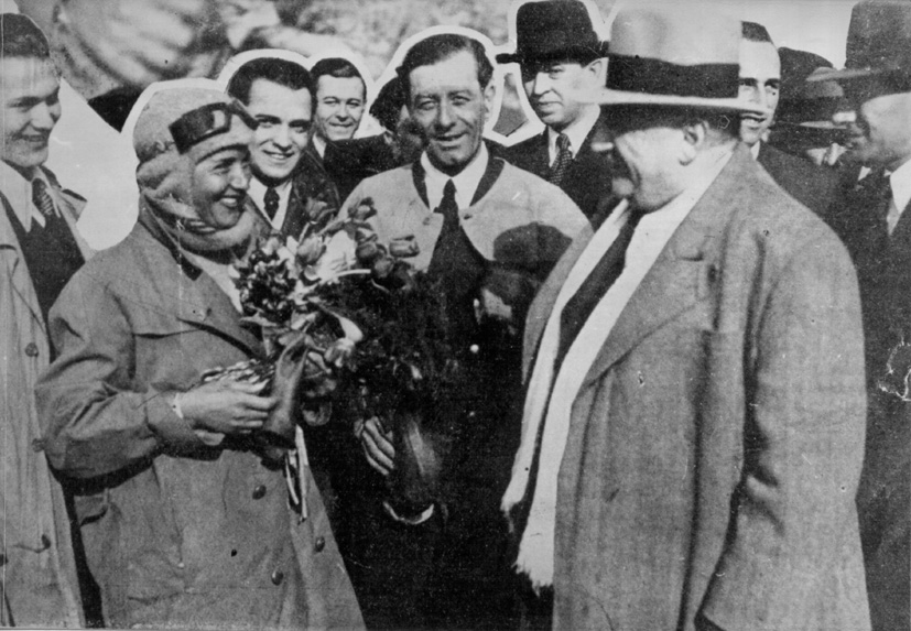 Irina Burnaia and Petre Ivanovici (center) at Băneasa, returning from the raid in Africa, 1935-03-24